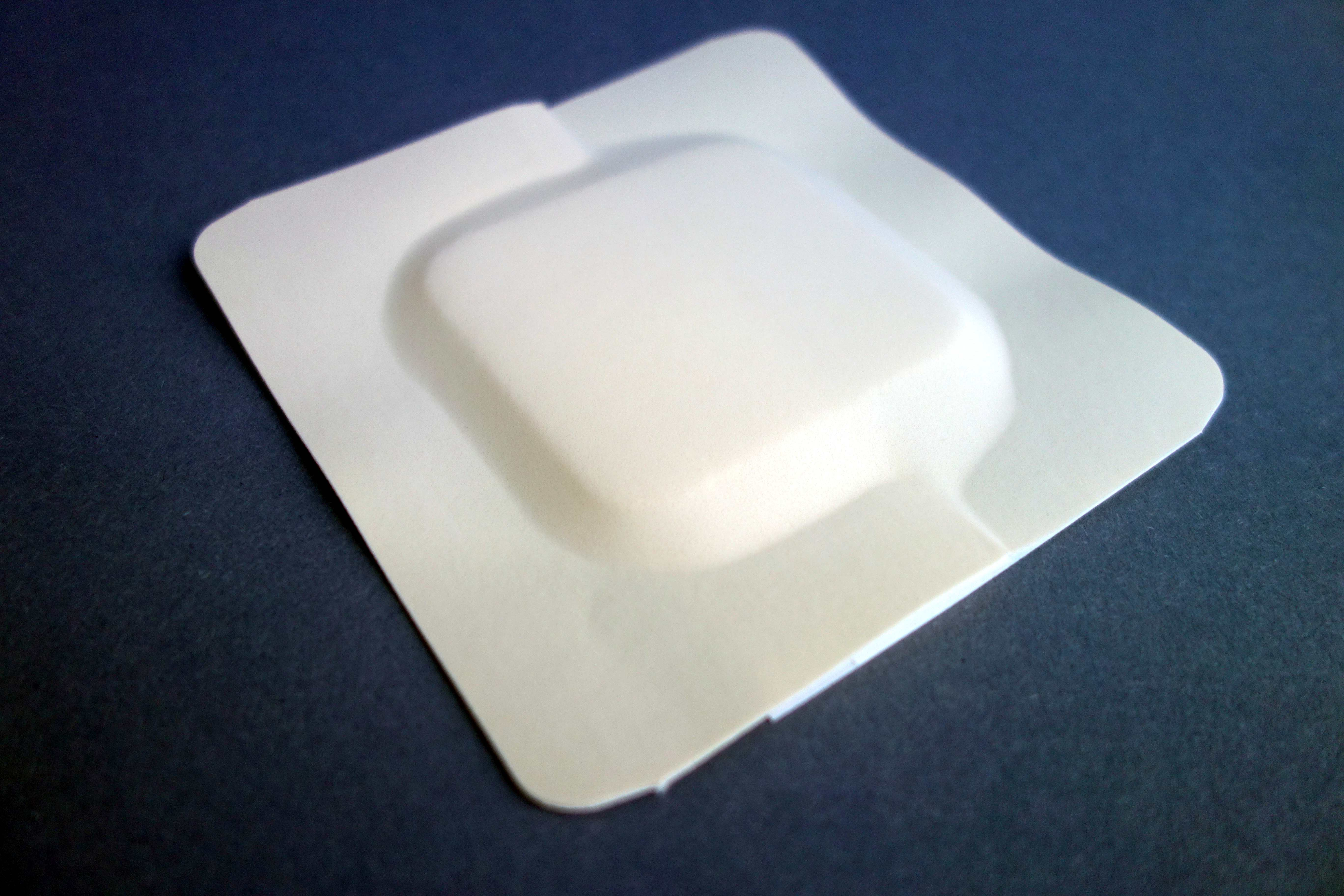 Self-adhesive foam dressing for wound care